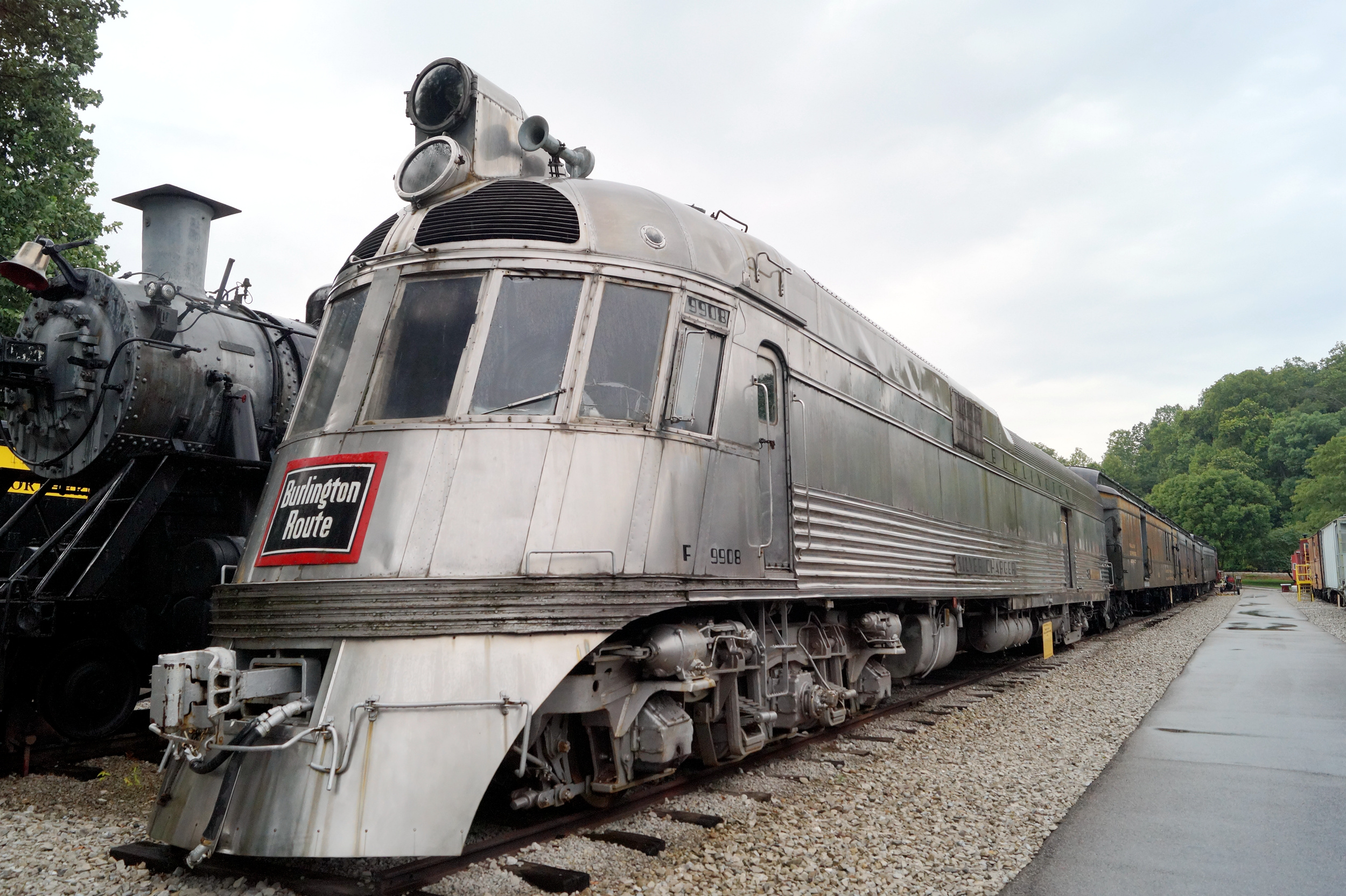 The locomotive 9908 of CB&Q General Pershing Zephyr on display in the Museum of Transportation in St. Louis, Missouri